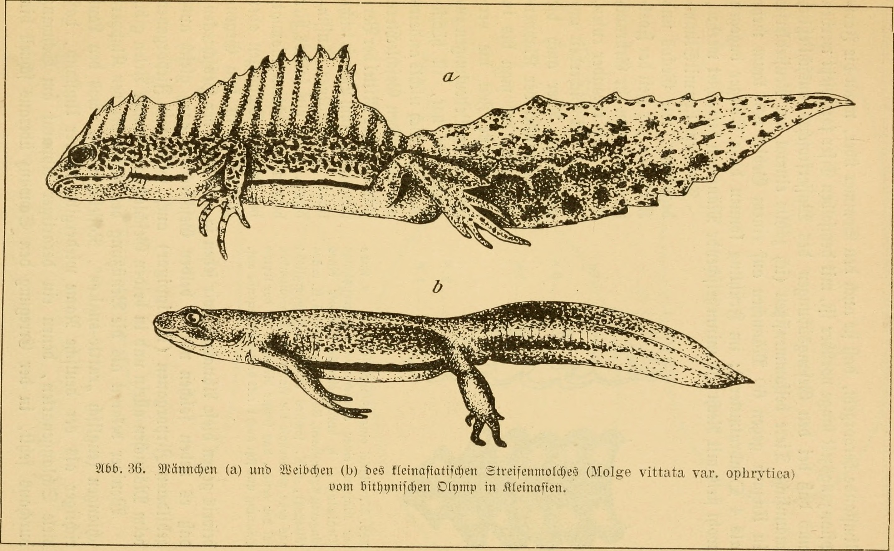 Title: Amphibien und reptilien Year: 1909 (1900s) Authors: Werner, Franz, b. 1868 Subjects: Amphibians; Reptiles Publisher: Stuttgart, Strecker & Schröder Text Appearing Before Image: ' Text Appearing After Image: 3i2B. A 16 äBerner IL